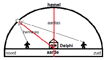 Depiction of presocratic cosmology: flat earth wit Delphi as its centre, creating the problem of two axes and the fact that certain stars appear closer to the northern horizon as one travels south.